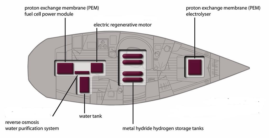 schematic of XV/1 sailboat